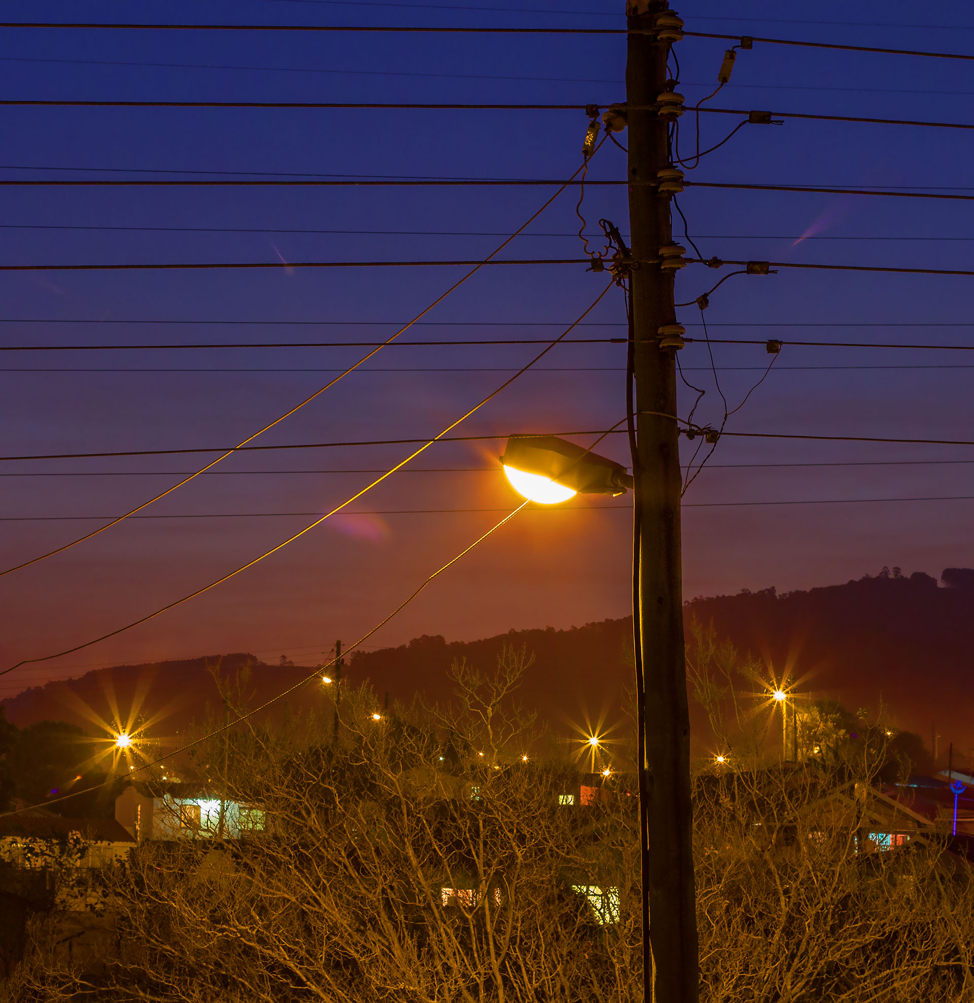 A street light in South Africa - also used in connecting electrical wires.